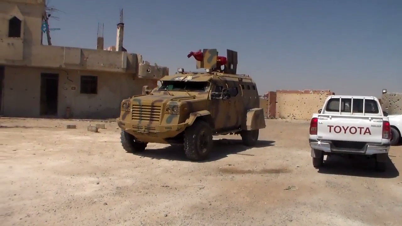 An armoured personnel carrier and a Toyota pickup truck operated by the Syrian Democratic Forces during the Battle of Raqqa (2017).